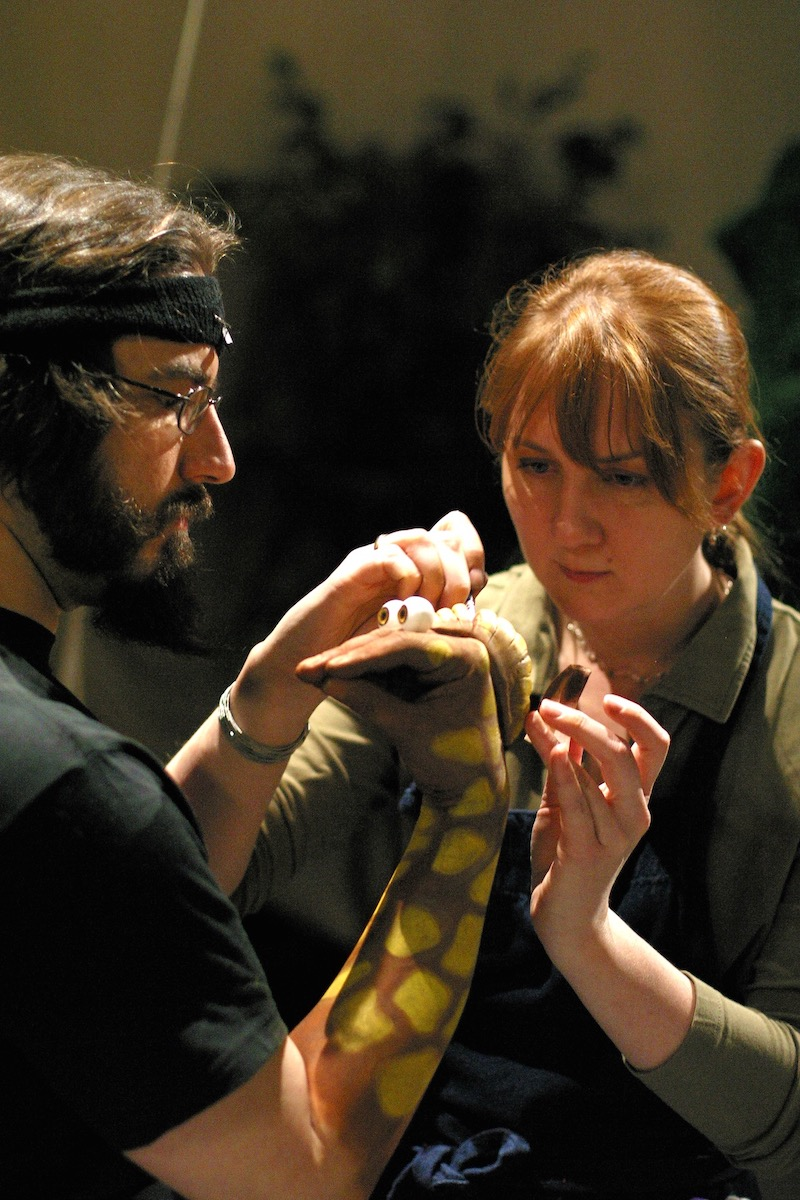 Set photo from Kaufman Astoria Studios, making an Oobi dinosaur puppet